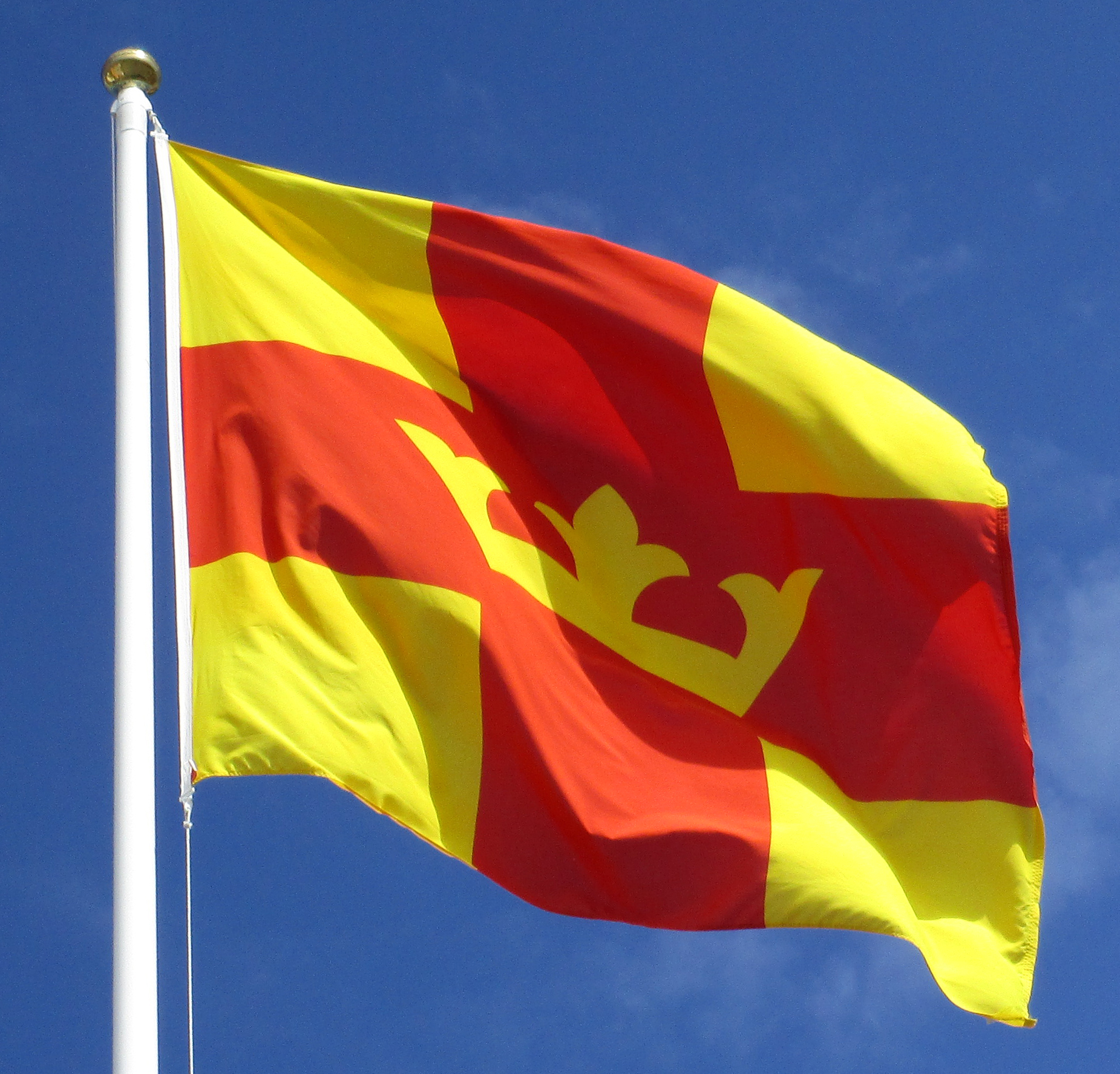 Flag of Church of Sweden. Photo taken at Smögen Church, Sweden.